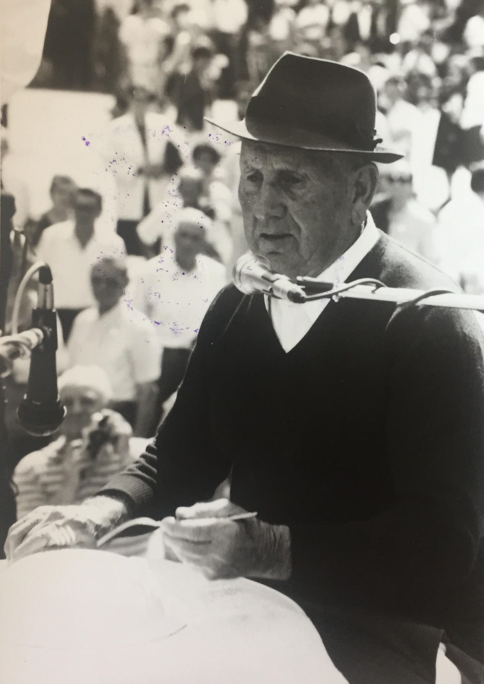 Tío Doro playing the spoons before the public at a folklore festival, Los Santos bullring, c. 1985.